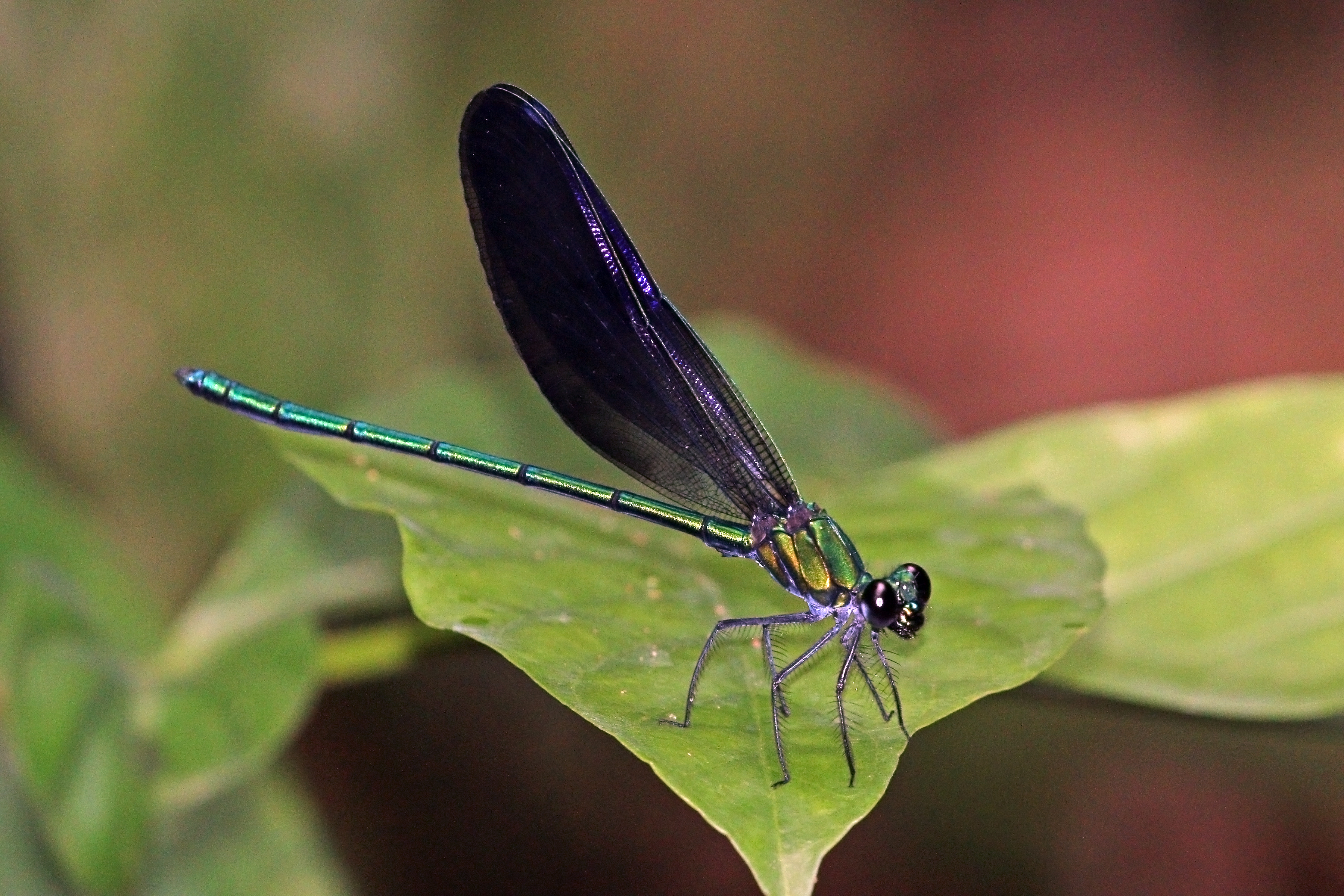 Western bluewing (Sapho ciliata) male, Ankassa National Park, Ghana